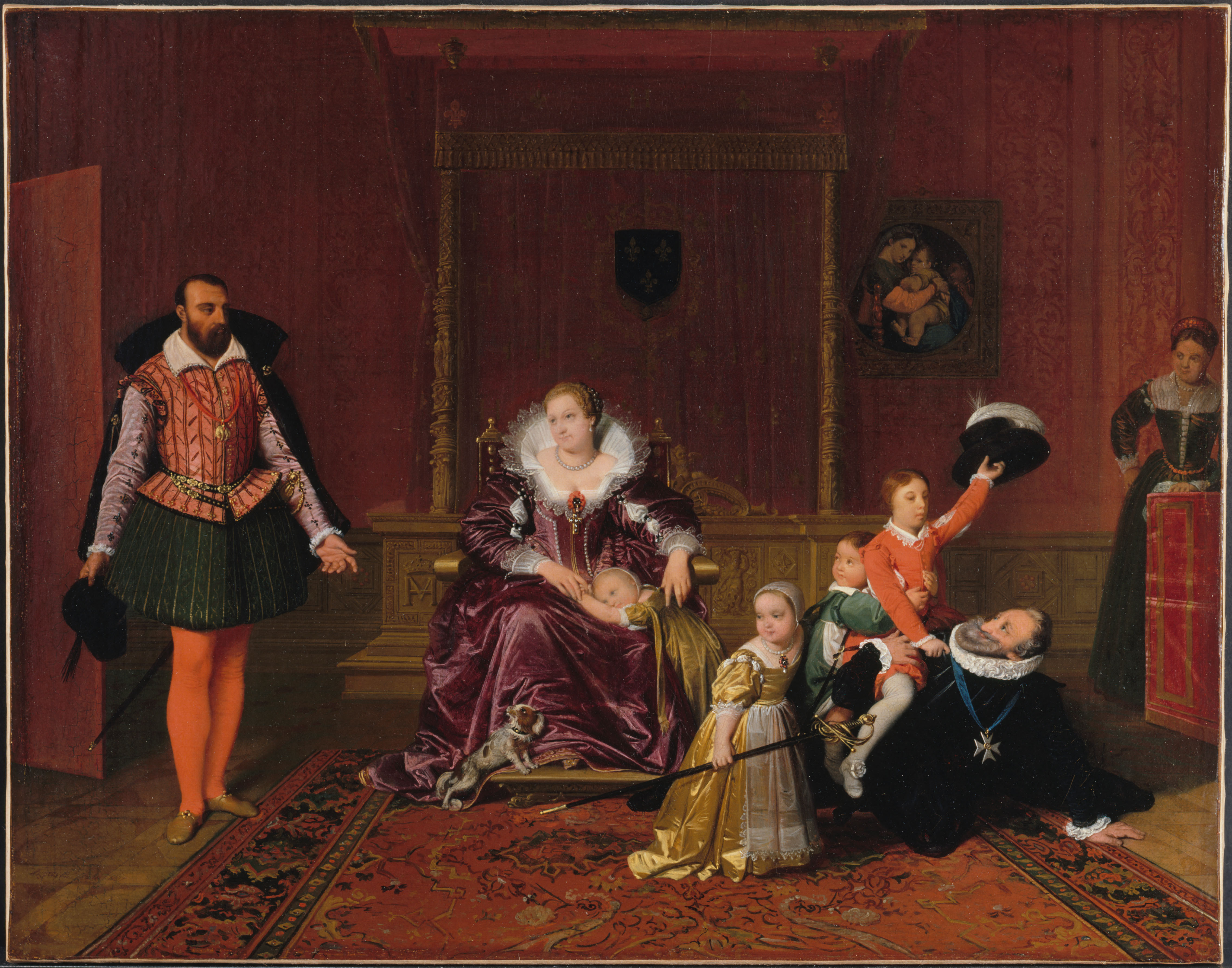 Henry IV of France playing with his children